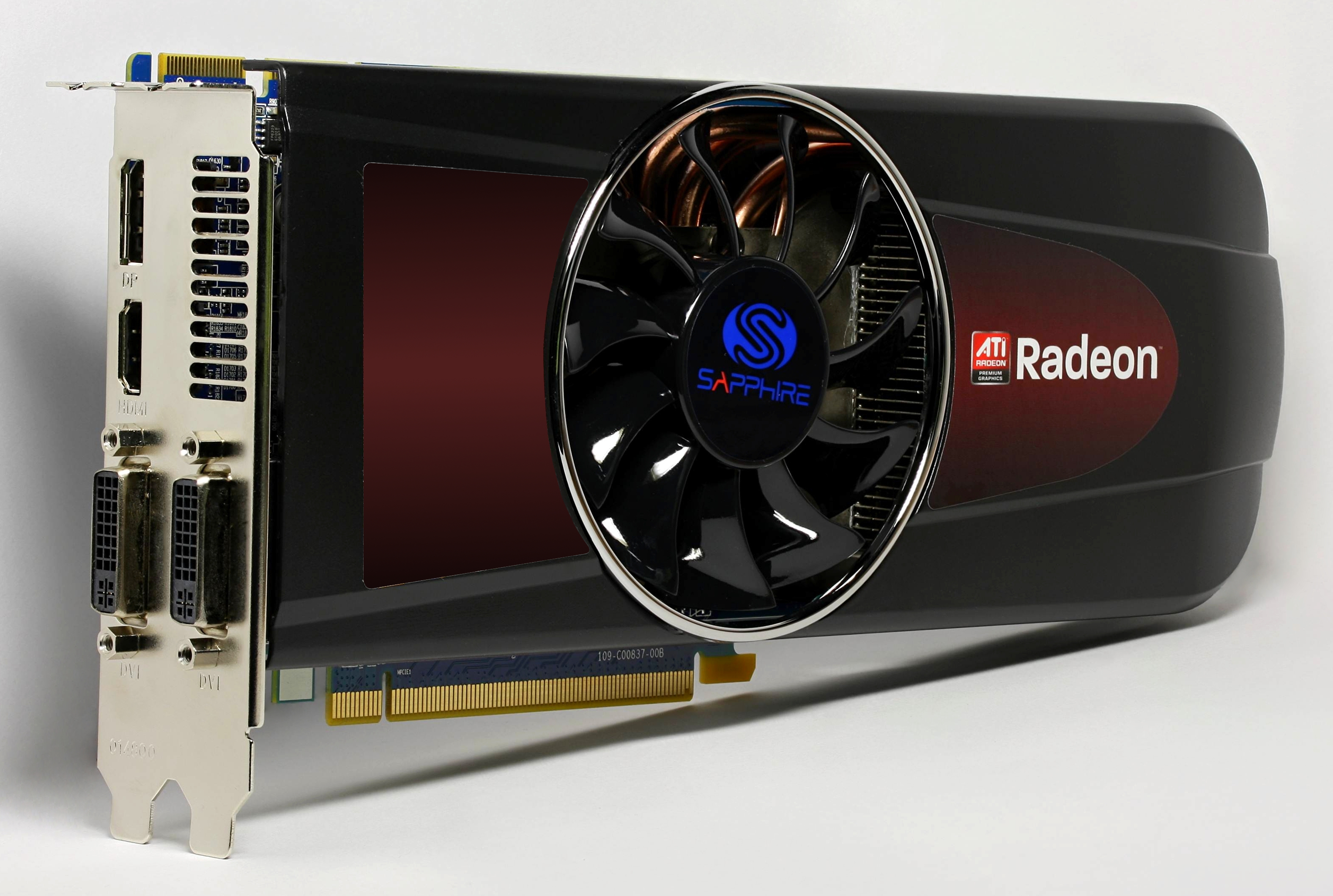 The front side of a Sapphire Radeon HD 5870 (see also Radeon HD 5000 Series)